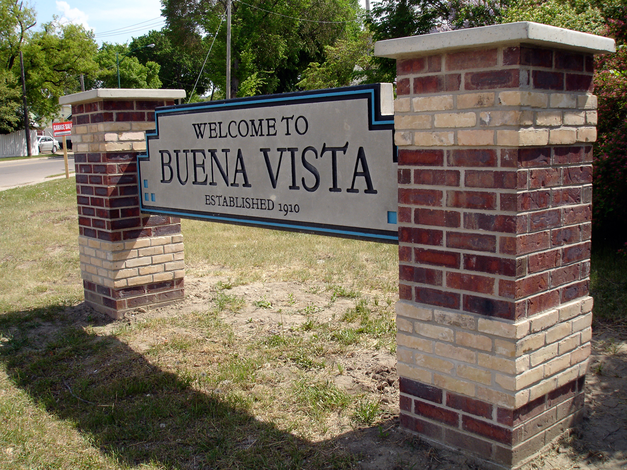 Welcome sign for the Buena Vista neighbourhood in Saskatoon, Saskatchewan, Canada.